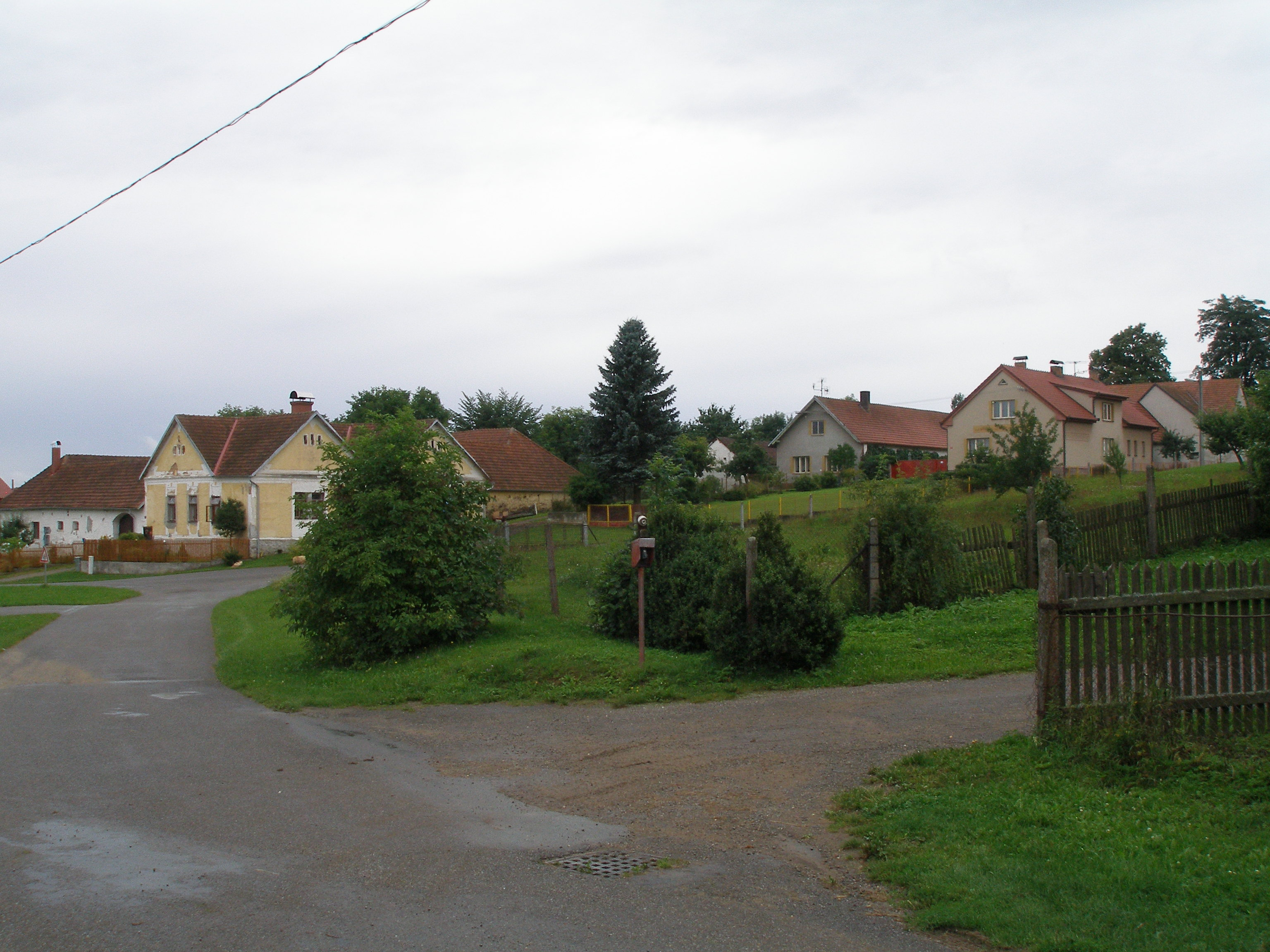 Lesná (Pelhřimov District) - the western side of the square